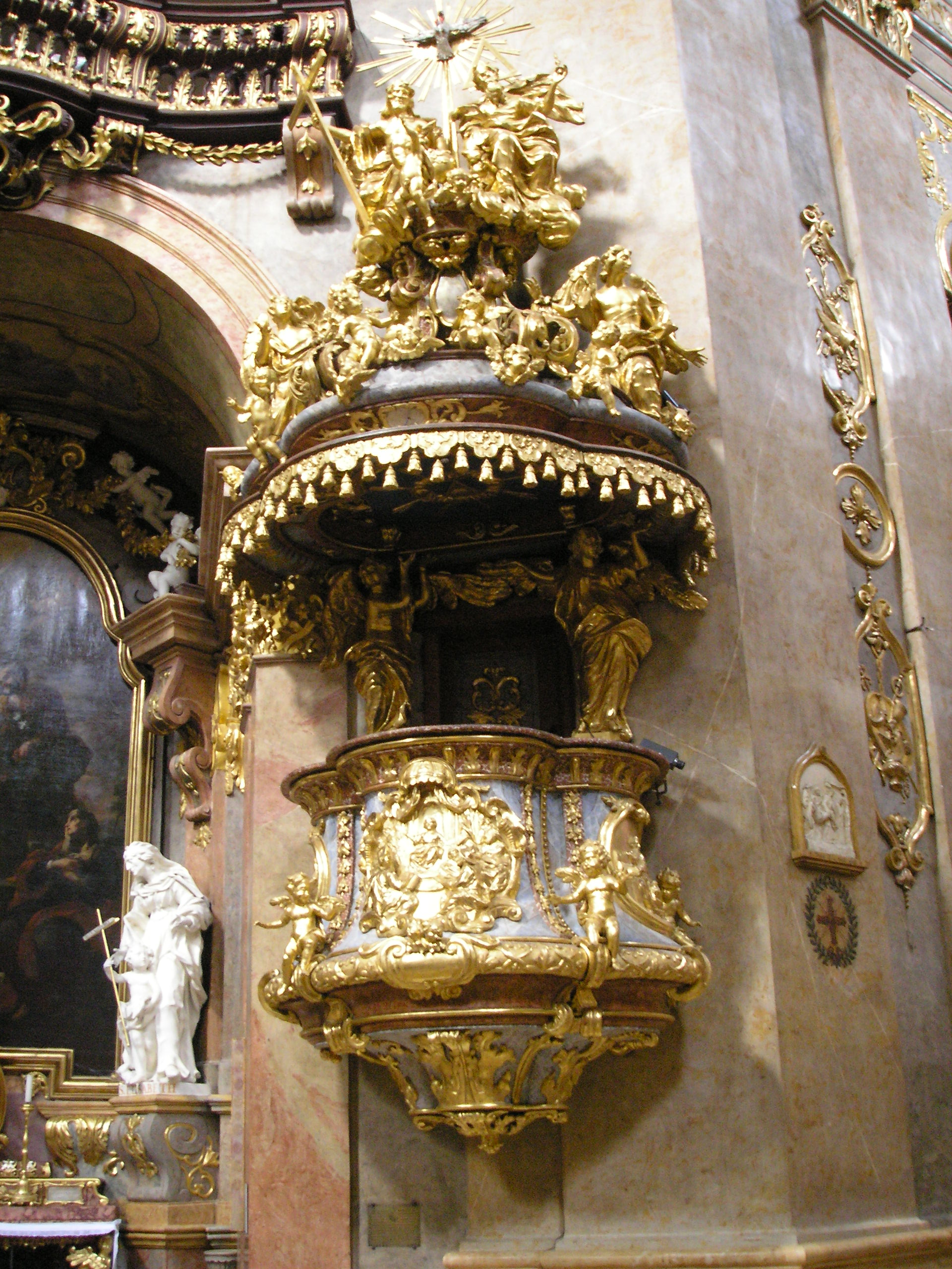 Description: Interior view of the Peterskirche in Vienna Source: self-made, I release it into the public domain. Gryffindor 23:47, 23 March 2006 (UTC)